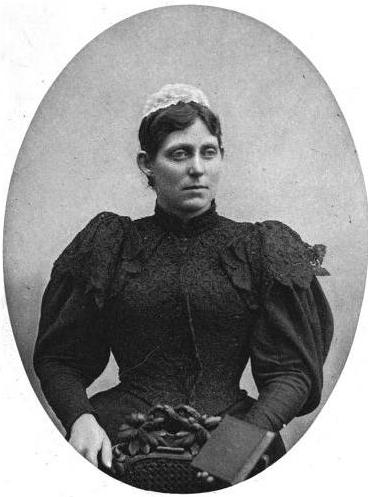 Portrait photograph of Adeline von Schimmelmann